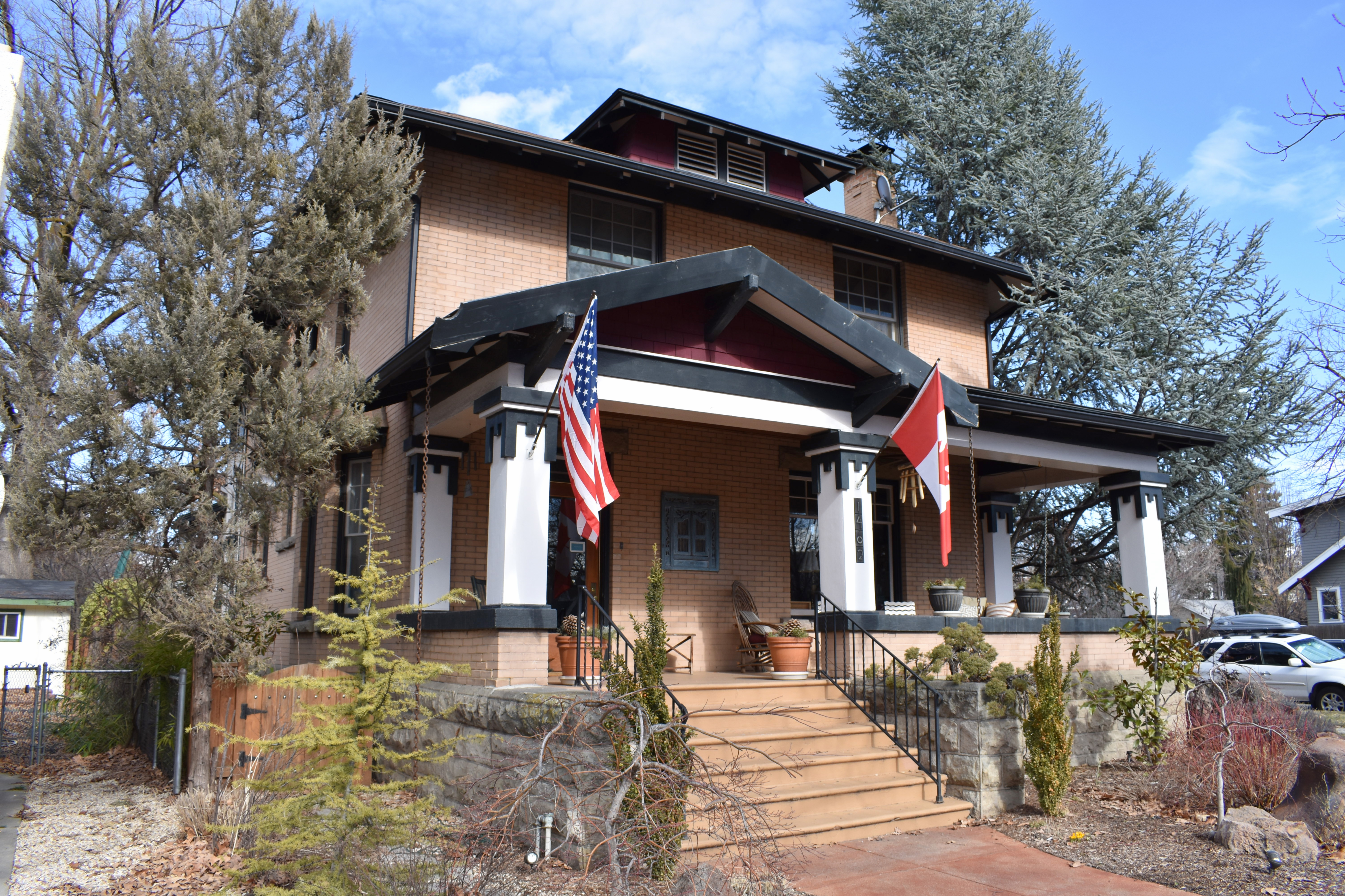 The J.H. Gakey House (1910) was designed by Tourtellotte & Hummel and is listed on the National Register of Historic Places.